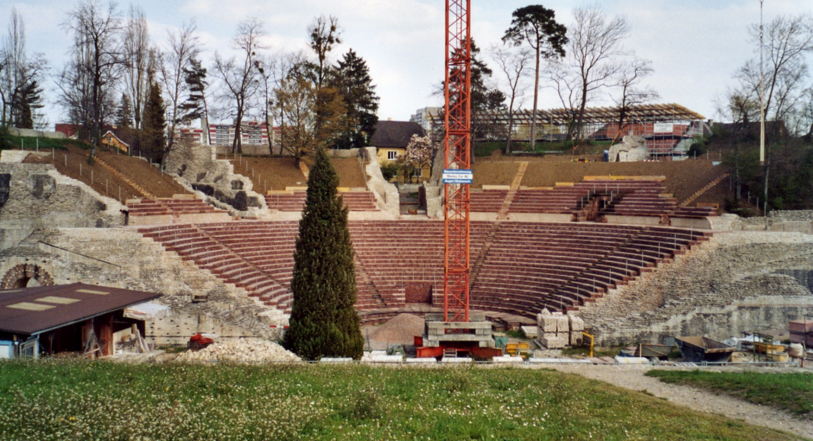 Theater at Augusta Raurica.